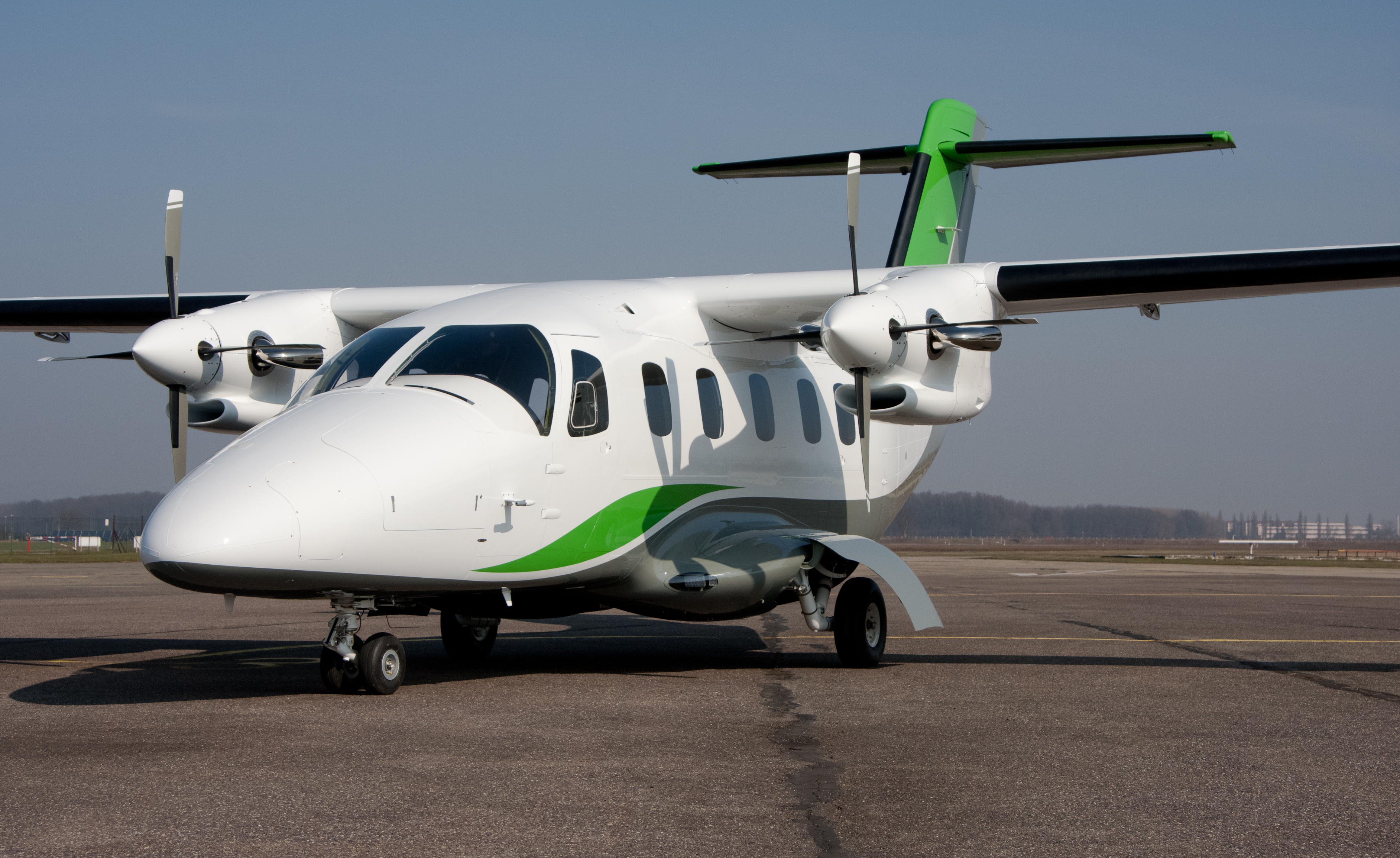 New utility aircraft developed by Evektor company.